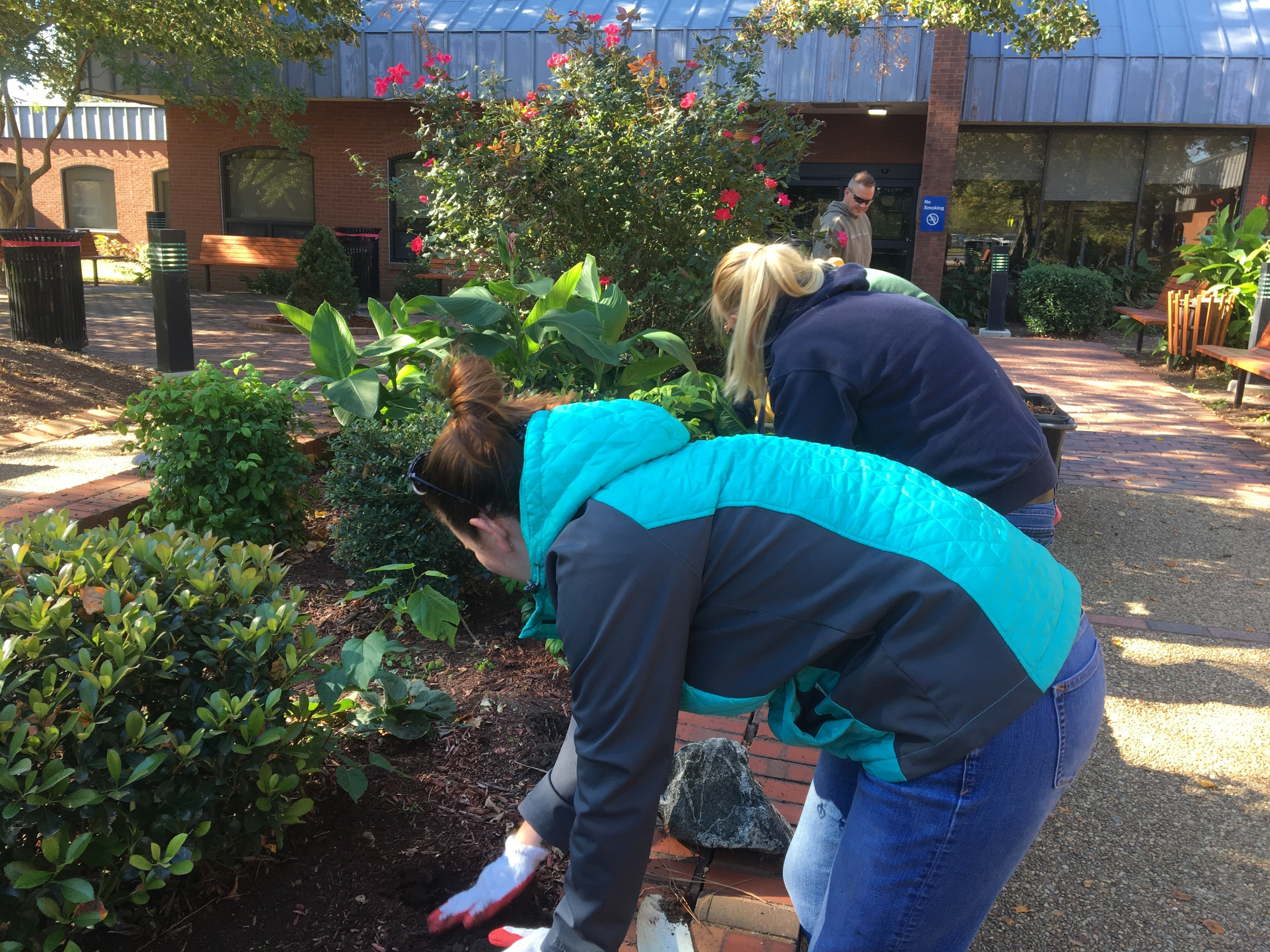 Members assigned to Joint Base Langley-Eustis, Va., spread mulch in horticultural therapy gardens at the Hampton Veteran Affairs Medical Center in Hampton, Va, Oct. 22, 2016.Gardens with plants that have colors, textures and fragrances that elicit a healing response are referred to as therapeutic gardens. (Courtesy photo) Unit: 633rd Air Base Wing DVIDS Tags: medical; therapy; Virginia; healing; Hampton; veterans; Soldiers; U.S. Air Force; U.S. Army; nature; garden; plants; Joint Base Langley-Eustis; Hampton Veterans Affairs Medical Center; connections; horitcultural therapy gardens